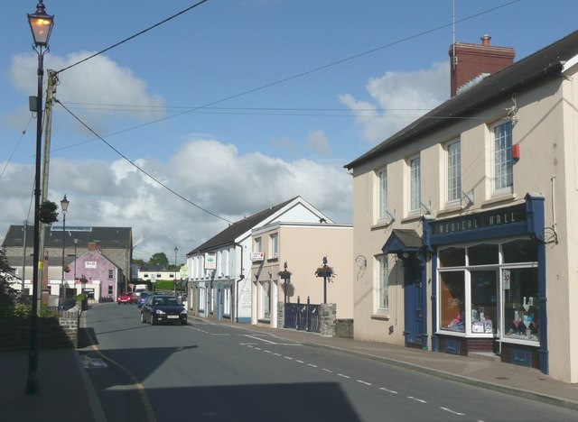 Pentre Road B4299, St Clears The foreground is in this square, then in SN2816 there is the bridge with the artwork in the railings, and then the war memorial seen sideways on the left.